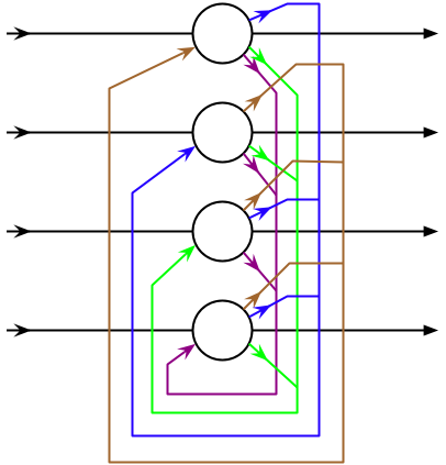 A Hopfield net with four nodes.